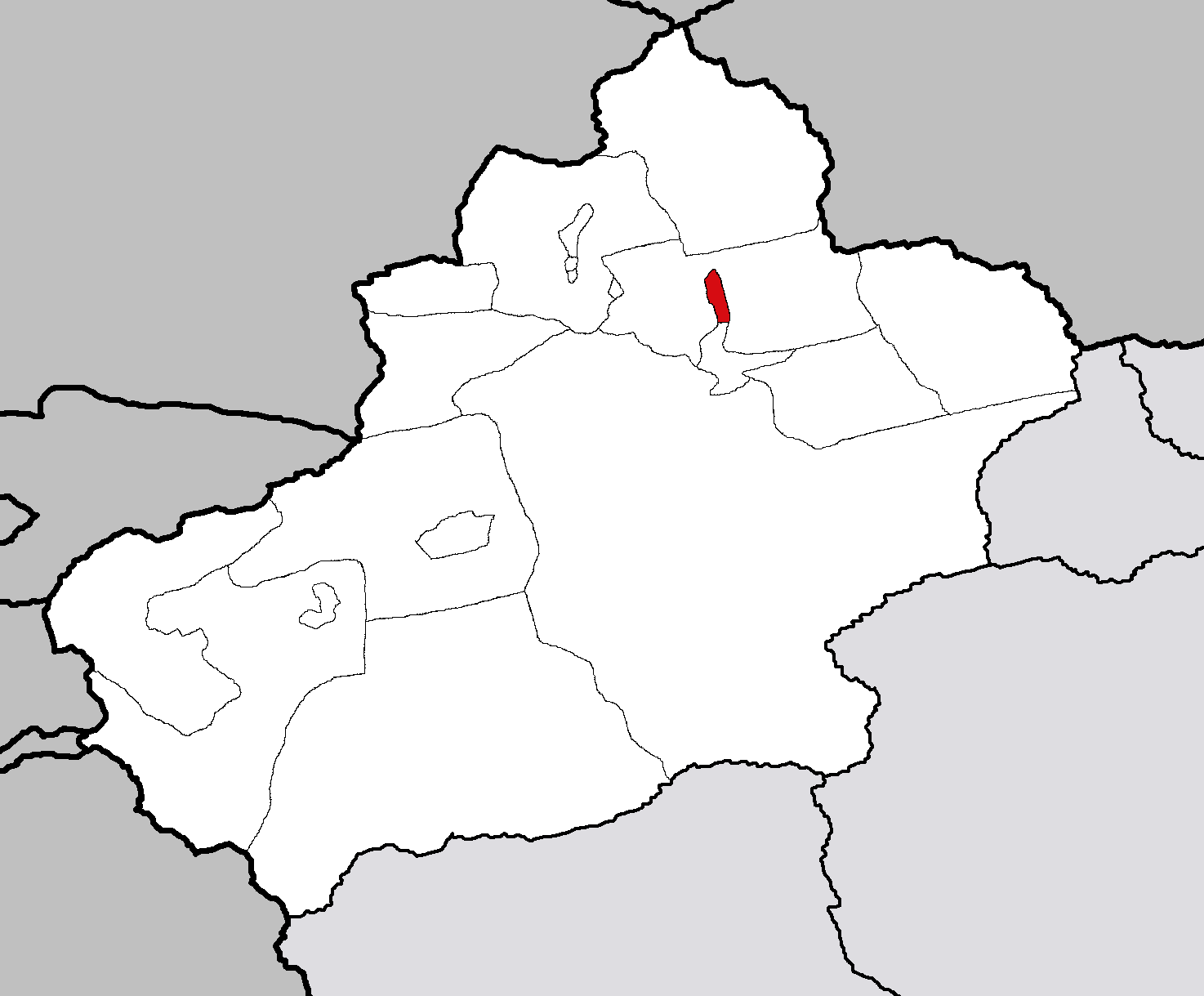 Wujiaqu sub-prefecture in Xinjiang autonomous region (China)